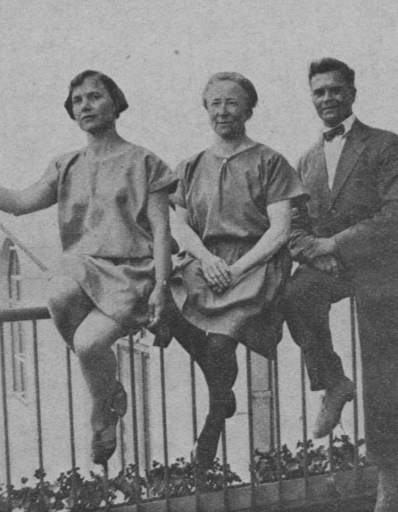 Terttu Kainuvaara, Anni Collan and Väinö Lahtinen in Kuopio 1929.